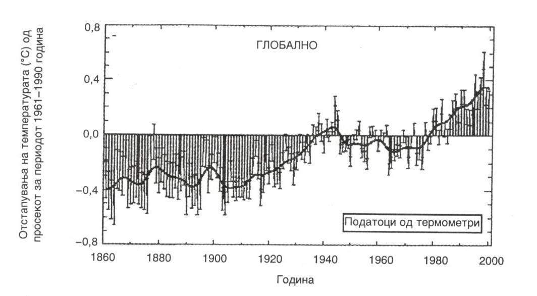 Chapter for the Greenhouse effect from the Encyclopedia of world climatology edited by John E. Oliver, translated on Macedonian